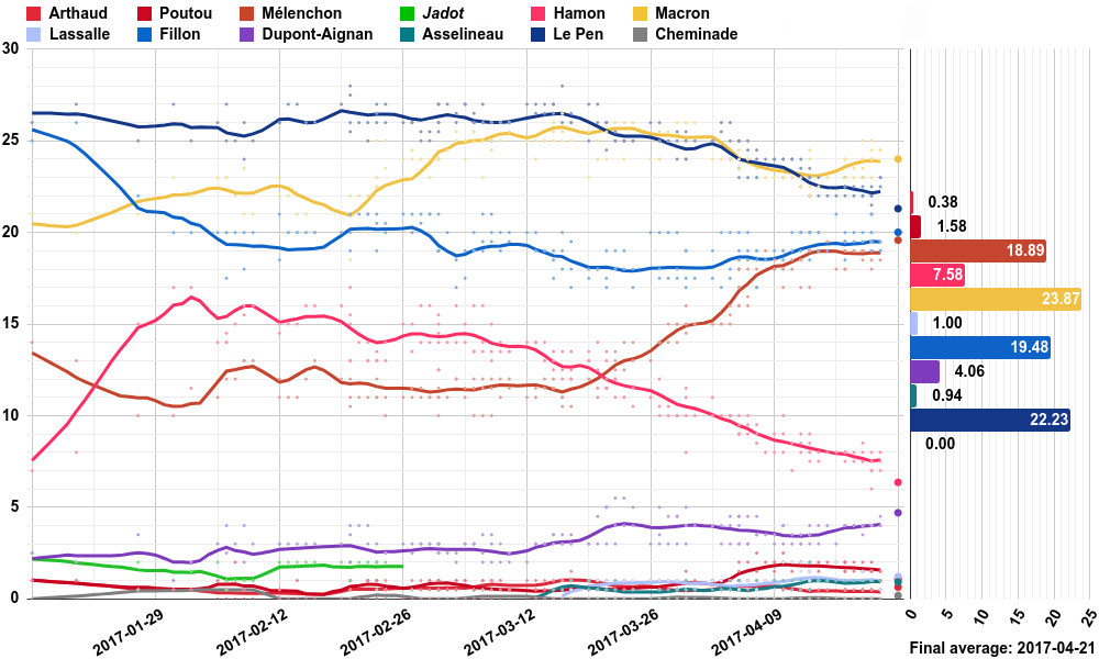 Nathalie Arthaud (LO) Philippe Poutou (NPA) Jean-Luc Mélenchon (FI) Yannick Jadot (EELV) Benoît Hamon (PS) Emmanuel Macron (EM) Jean Lassalle (Résistons!) François Fillon (LR) Nicolas Dupont-Aignan (DLF) François Asselineau (UPR) Marine Le Pen (FN) Jacques Cheminade (S&P)